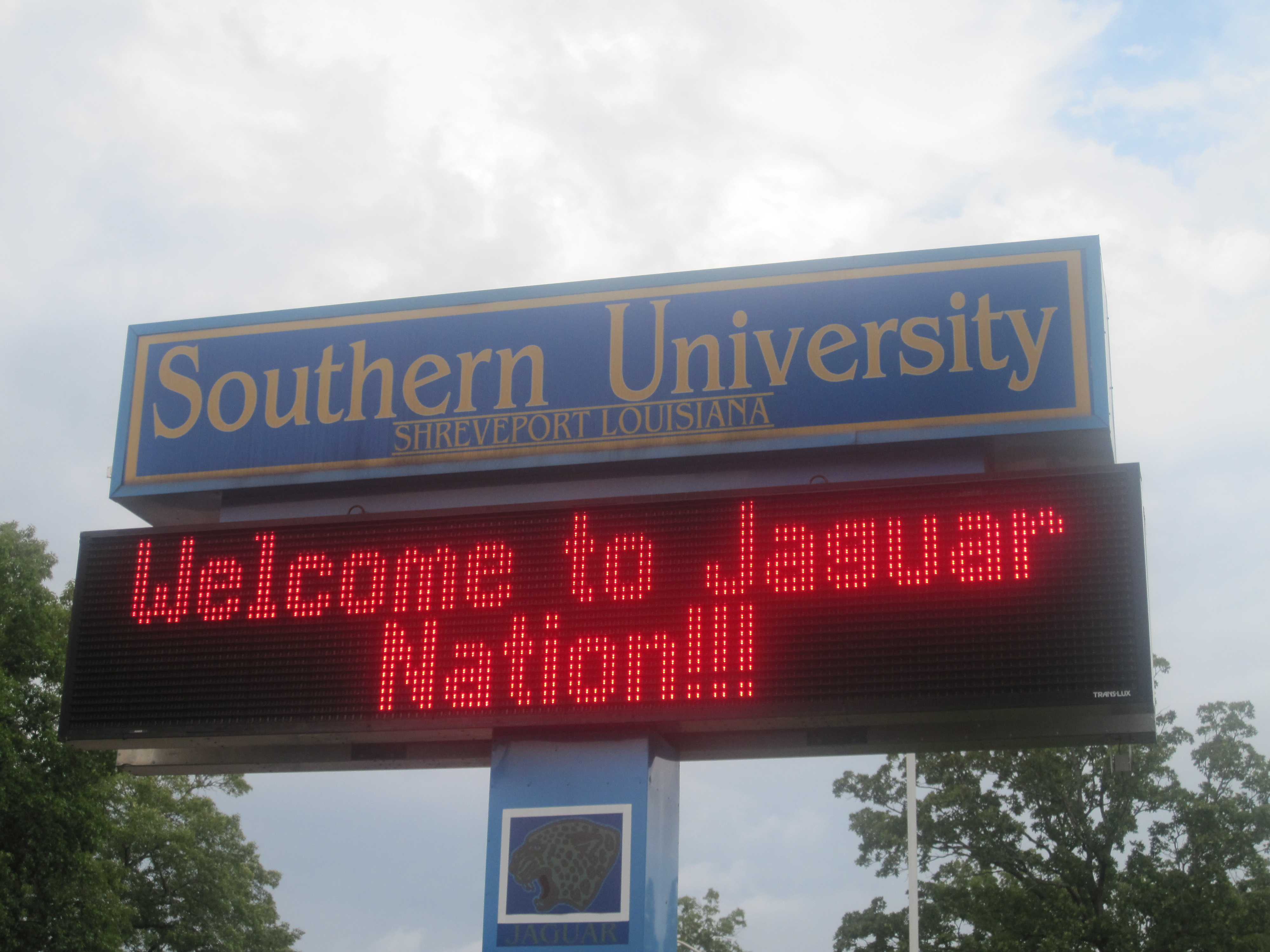 I took photo with Canon camera.